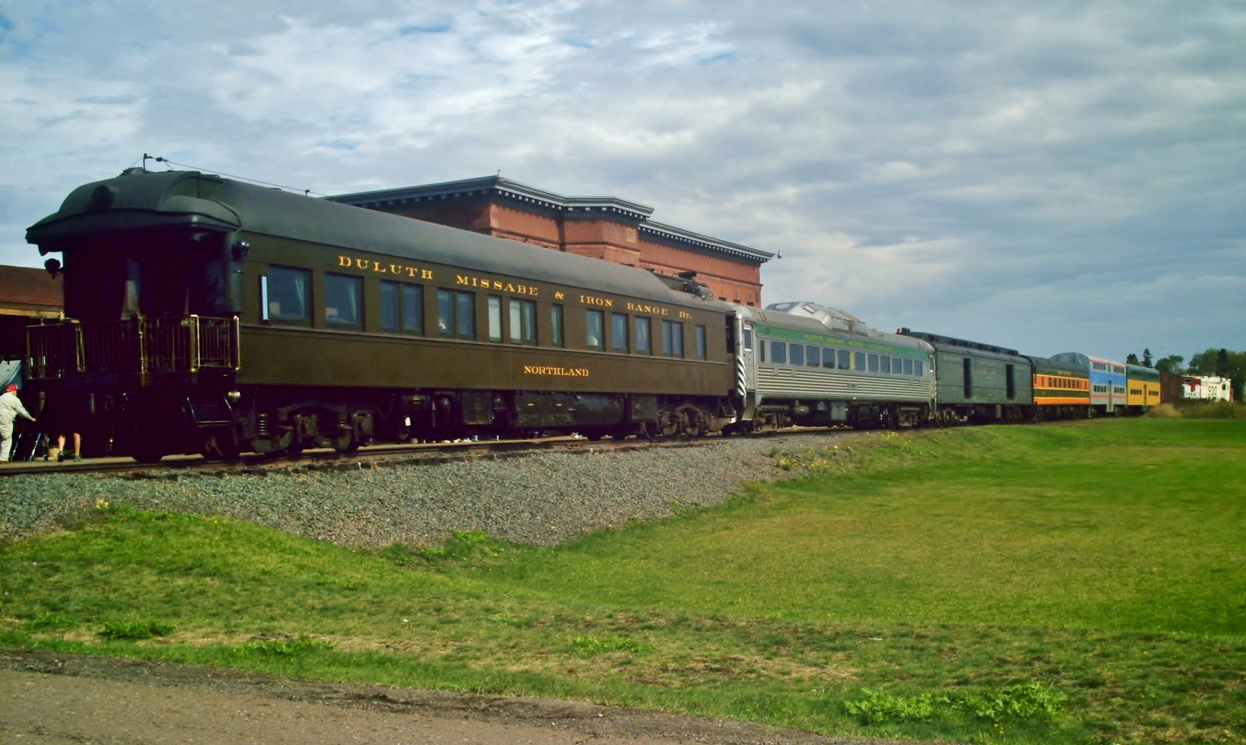 A long and colorful train in Two Harbors, MN... Awaiting the return of Soo Line 2719